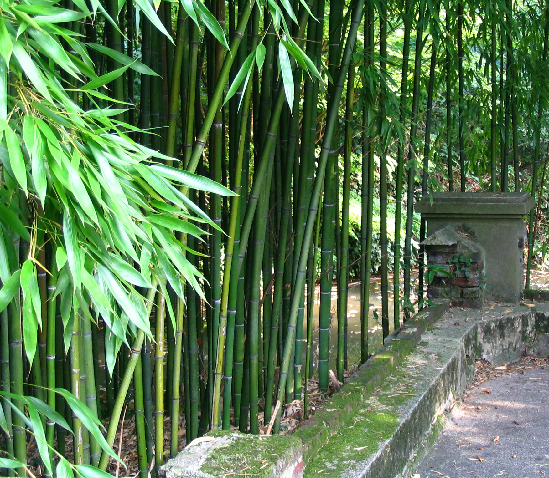 Bambouseraie du Jardin Tropical de Paris Bamboos in the Tropical Garden of Paris. Auteur/author: P.Charpiat - 2006